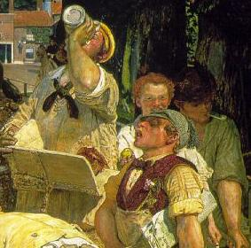 Beer seller from Work by Ford Madox Brown